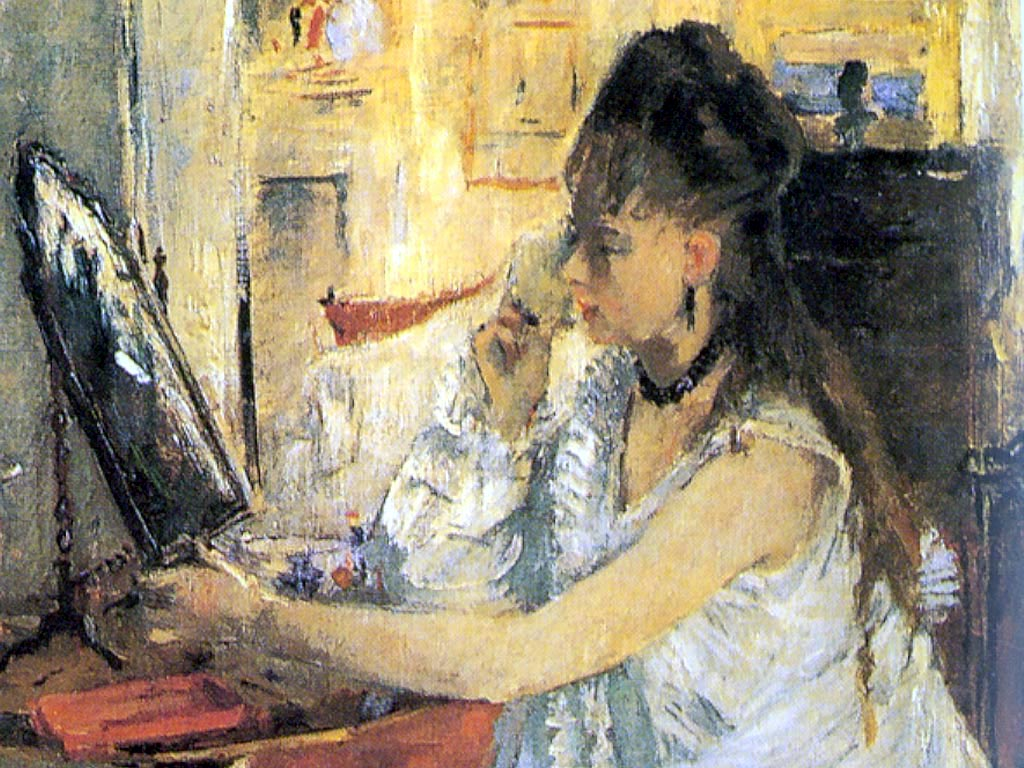 jeune_femme_se_poudrant